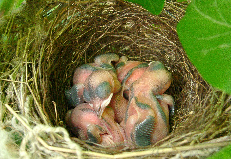 Young birds (possibly thrushes; not sparrows) in their nest